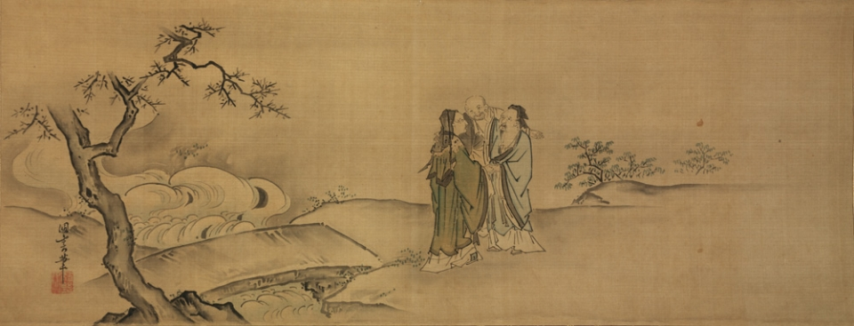 Kano Doun Masanobu, Japanese, 1625–1694 Three Laughers of the Tiger Glen Hanging scroll: ink and colors on silk 10 1/2 x 26 3/4 inches